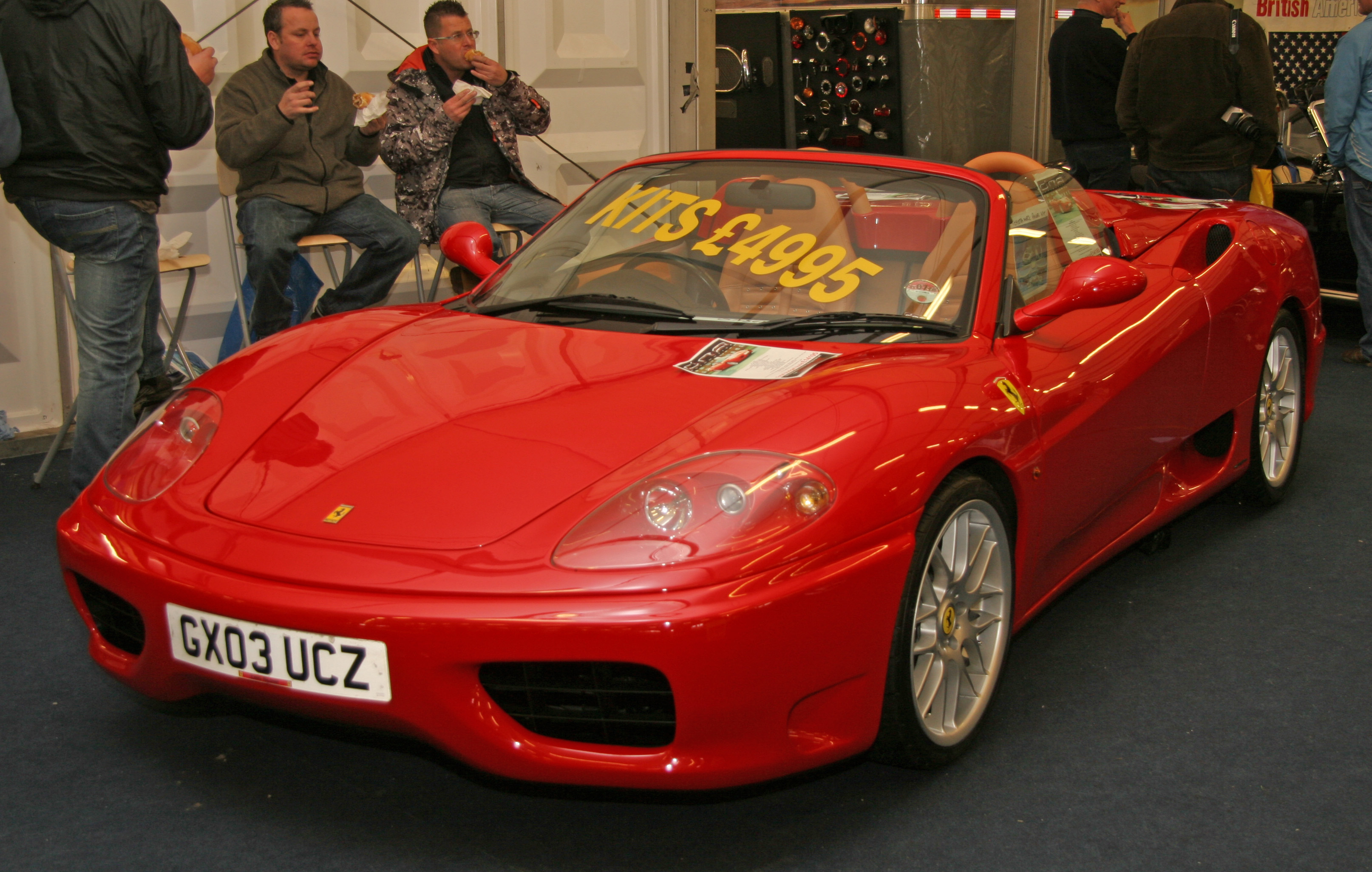 DNA Automotive 3 Sixty.